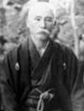 Ryohei Uchida